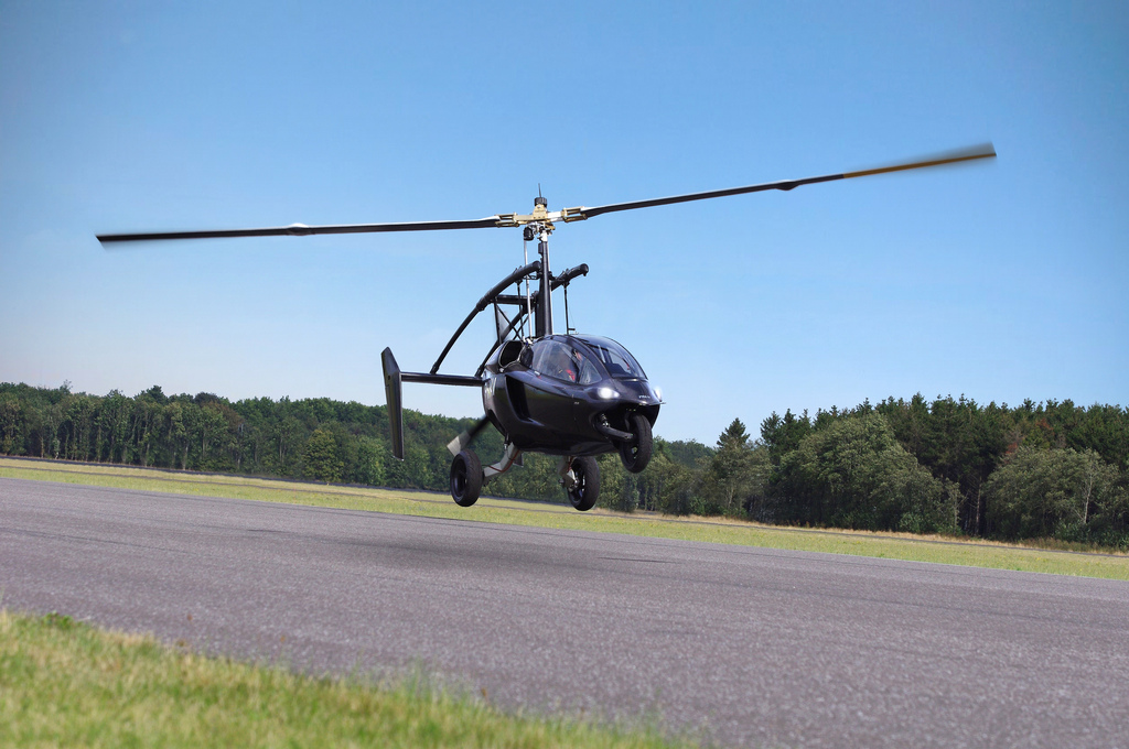 PAL-V ONE landing